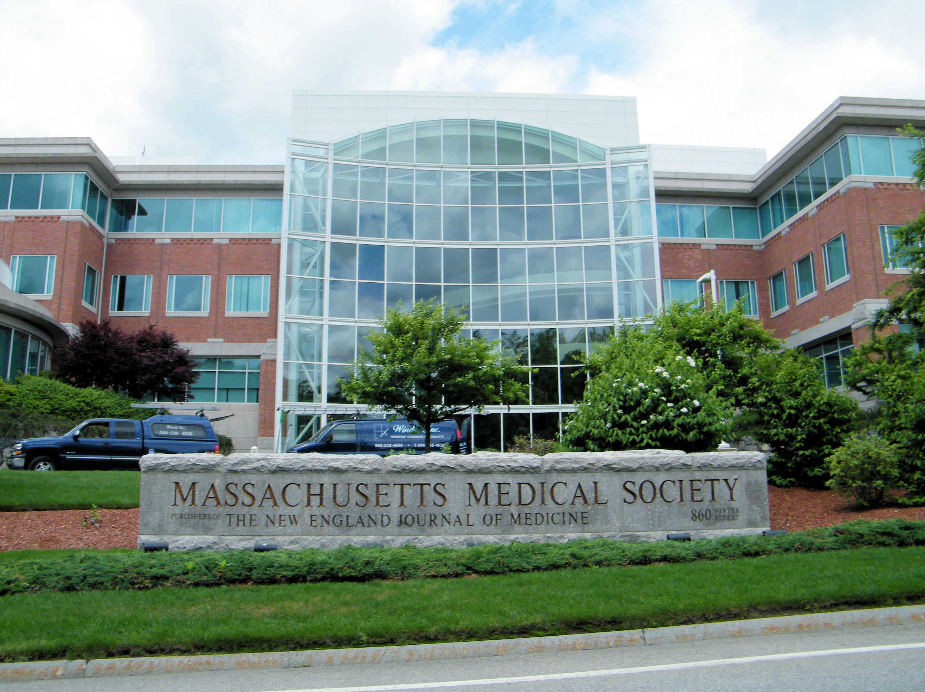 Massachusetts Medical Society headquarters in Waltham. Photographed by user Coolcaesar on June 20, 2009.